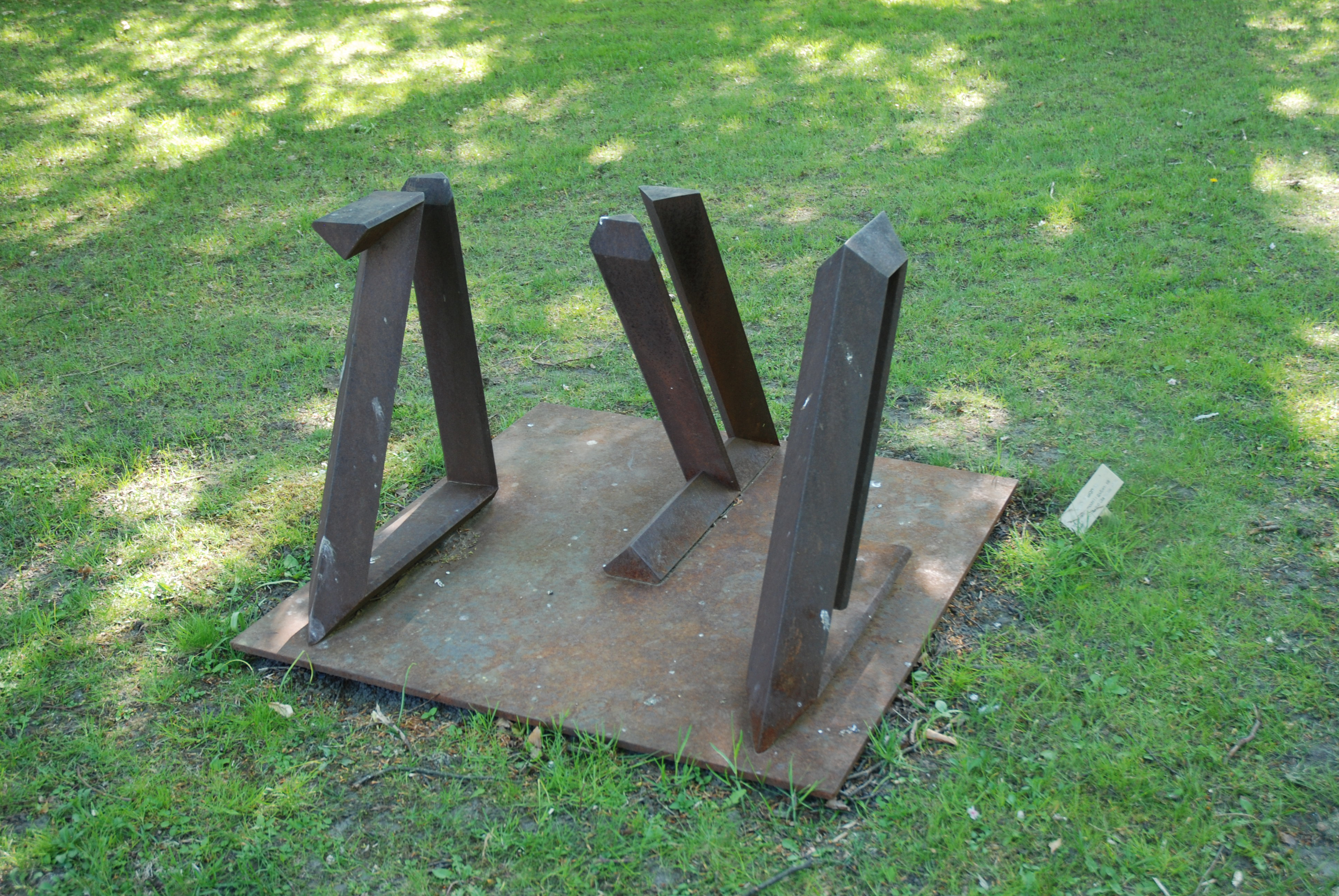 Model of Carl Magnus´ Intervaller, cast iron, 1985